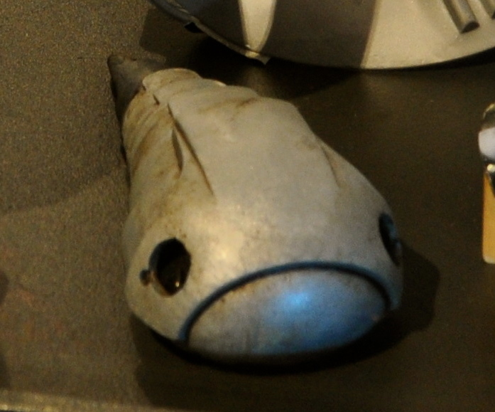 DWE Cardiff Bay, Port Teigr November 2016 Doctor Who Experience